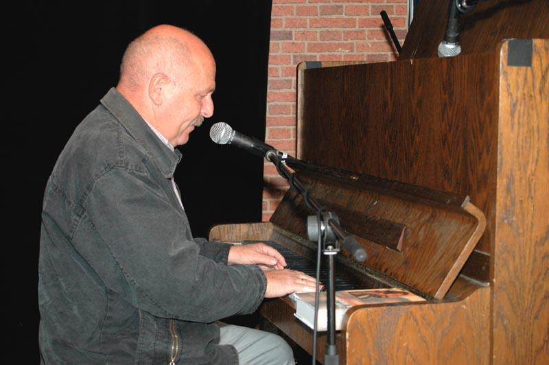 Petr Skoumal, Czech musician and composer